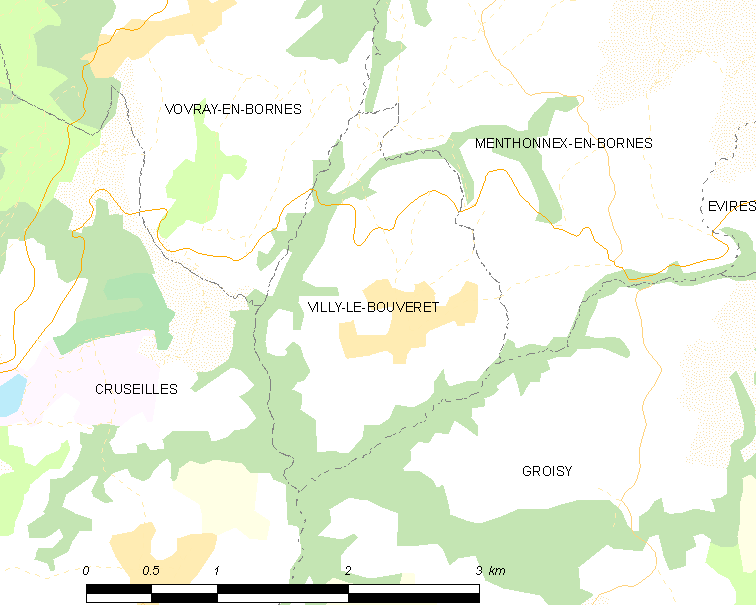 Map of French municipality Villy-le-Bouveret